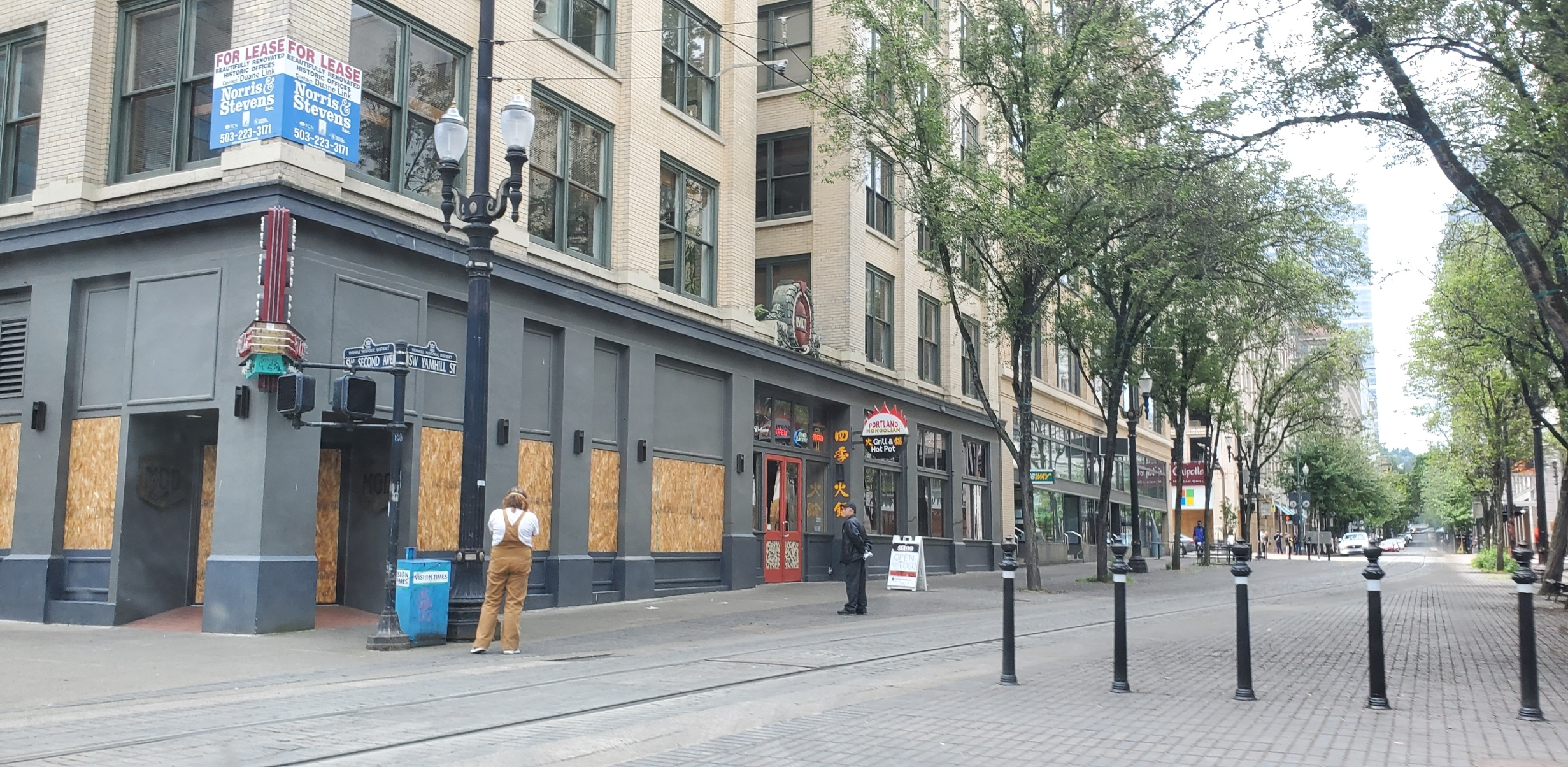 Boarded windows in Portland, Oregon, following George Floyd protests, 2020